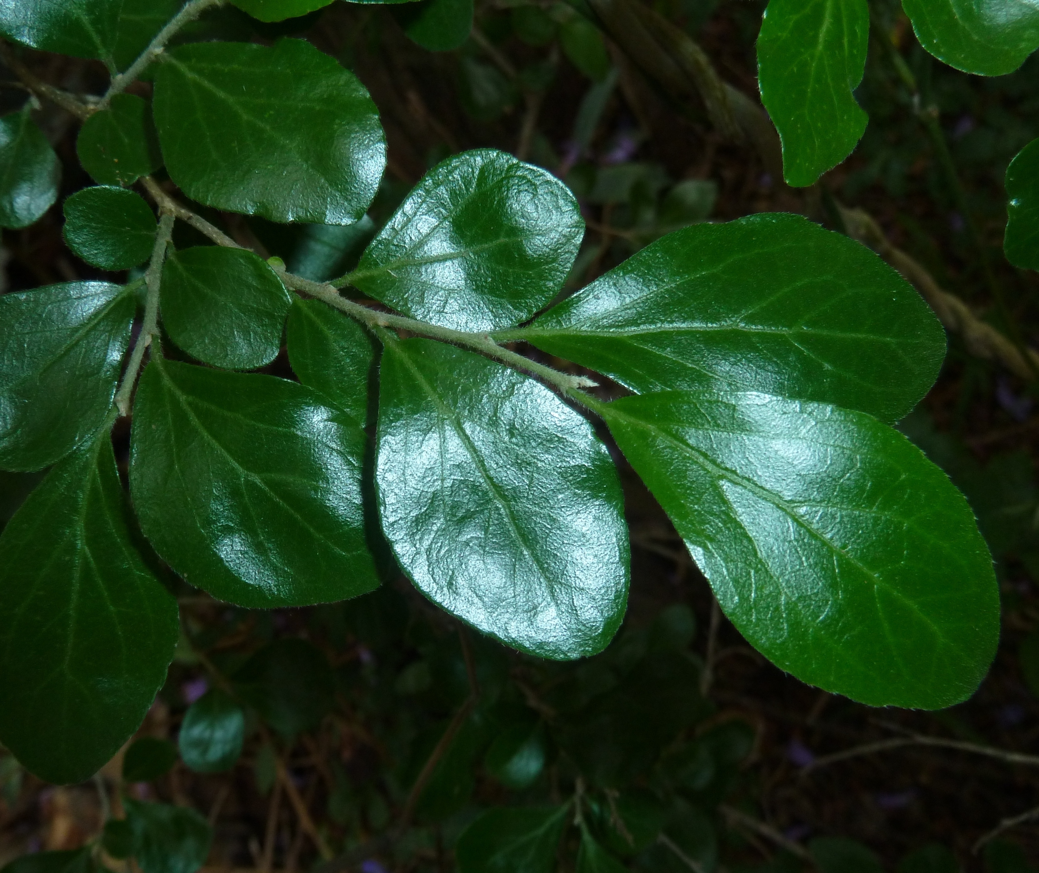 Foliage of an Apricot sourberry in suburban Pretoria, South Africa